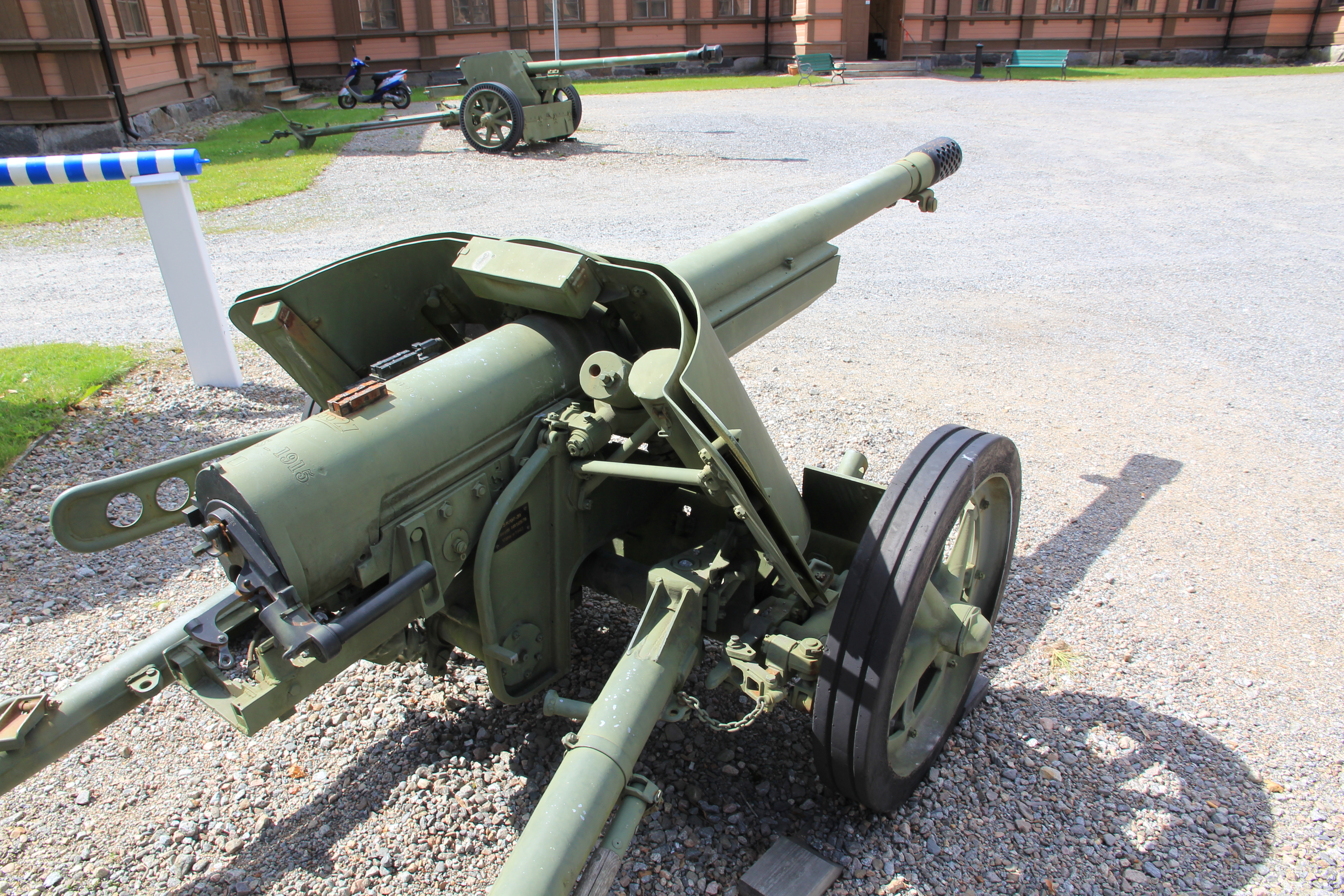 75 mm PaK 97/38 anti-tank gun at the yard of Mikkeli Infantry museum. Pak 40 on the background.